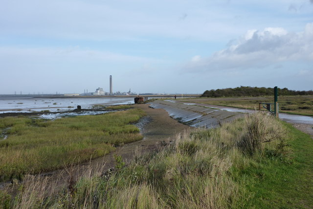 Start of the walkway from Sharp's Green to Horrid Hill Part of Riverside Country Park near Gillingham.